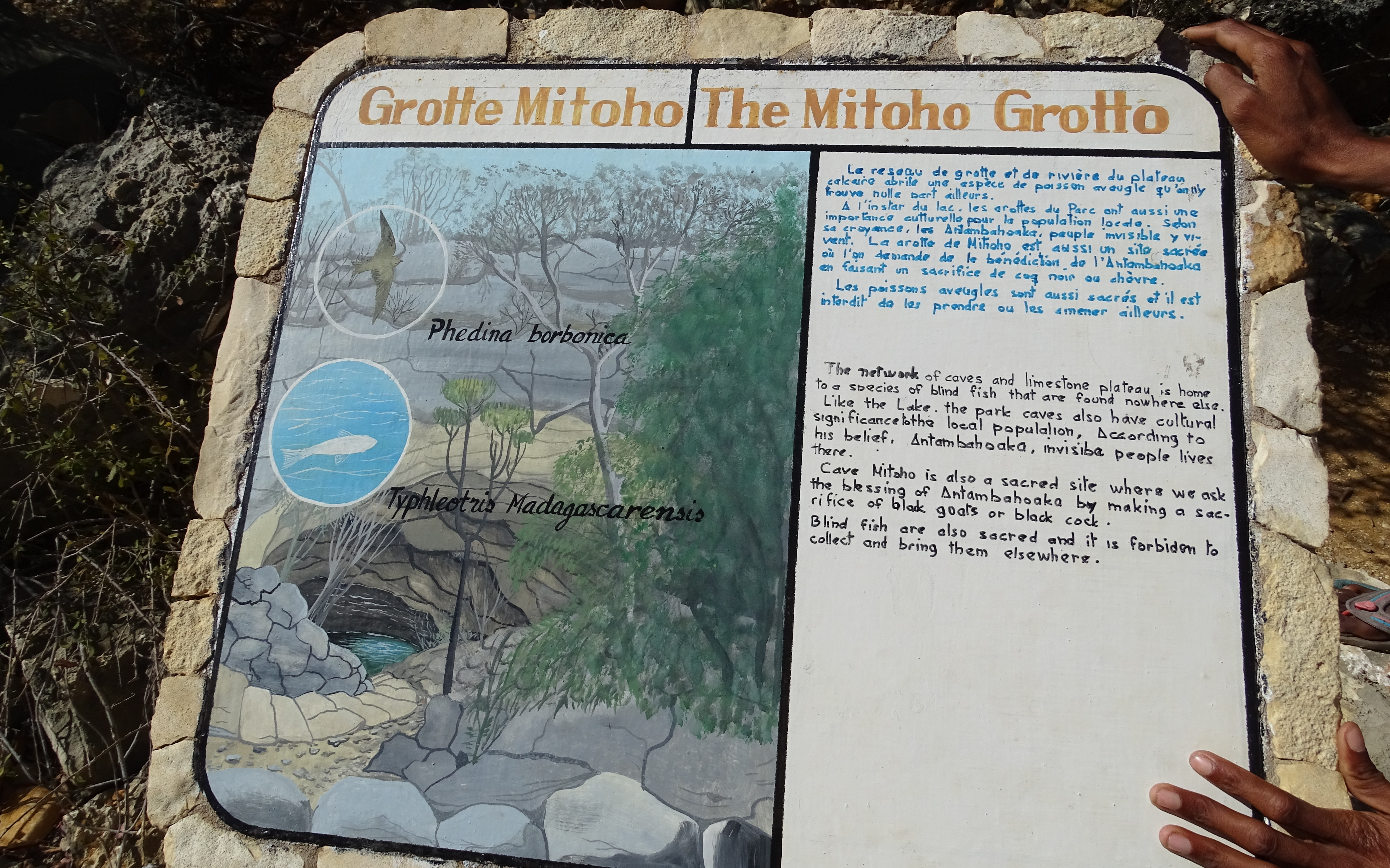 Mitoho Cave Notice Board with details of the Blind fish (Typhleotris madagascariensis) - useful reference material